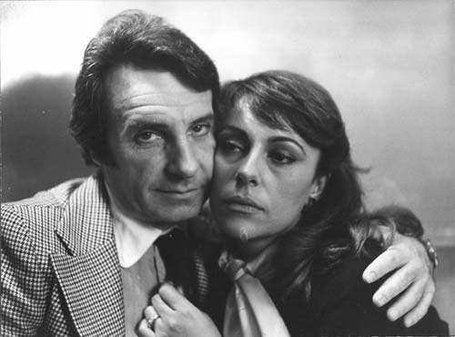 El bromista - película Argentina